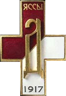 Padge/ Emblem of the "Dostrowski division" in the year 1917.